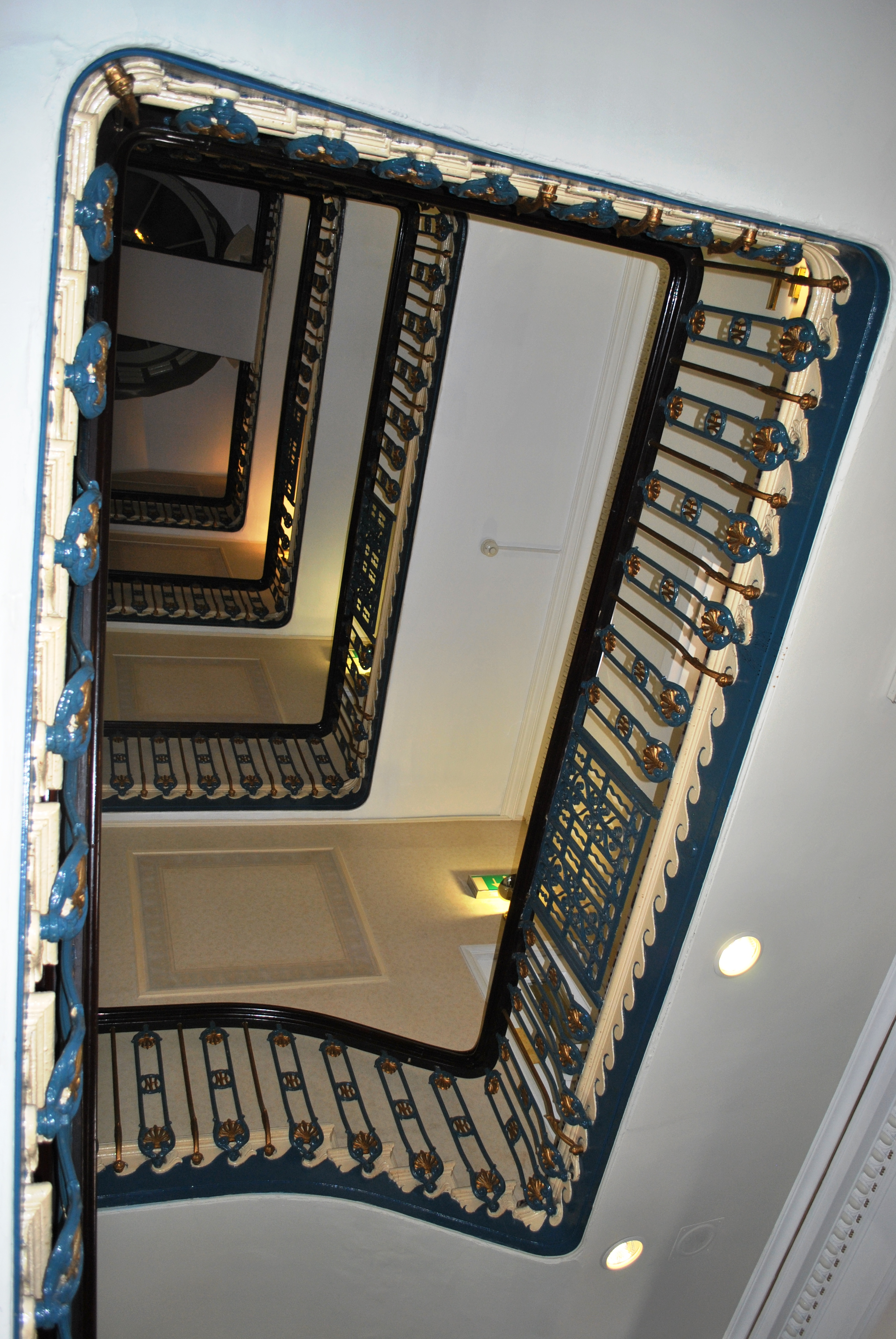 Norfolk Hotel, Brighton